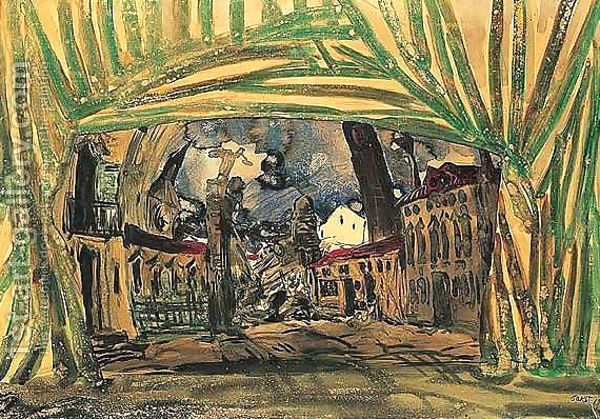 Design for Leonide Massine’s ballet 'The Good Humoured Ladies' Designed by Leon Bakst